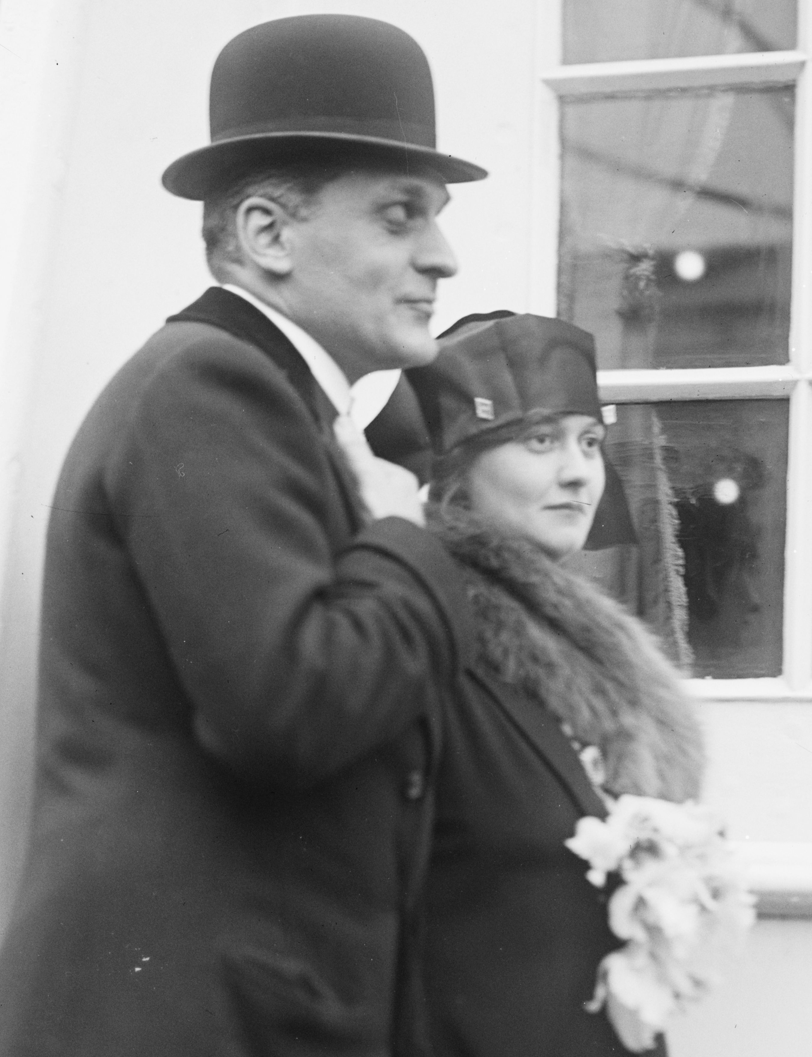 Romanian diplomat and writer Anton Bibescu a.k.a. Antoine Bibesco (1878-1951) with wife Elizabeth Bibesco née Elizabeth Asquith (1897-1945)